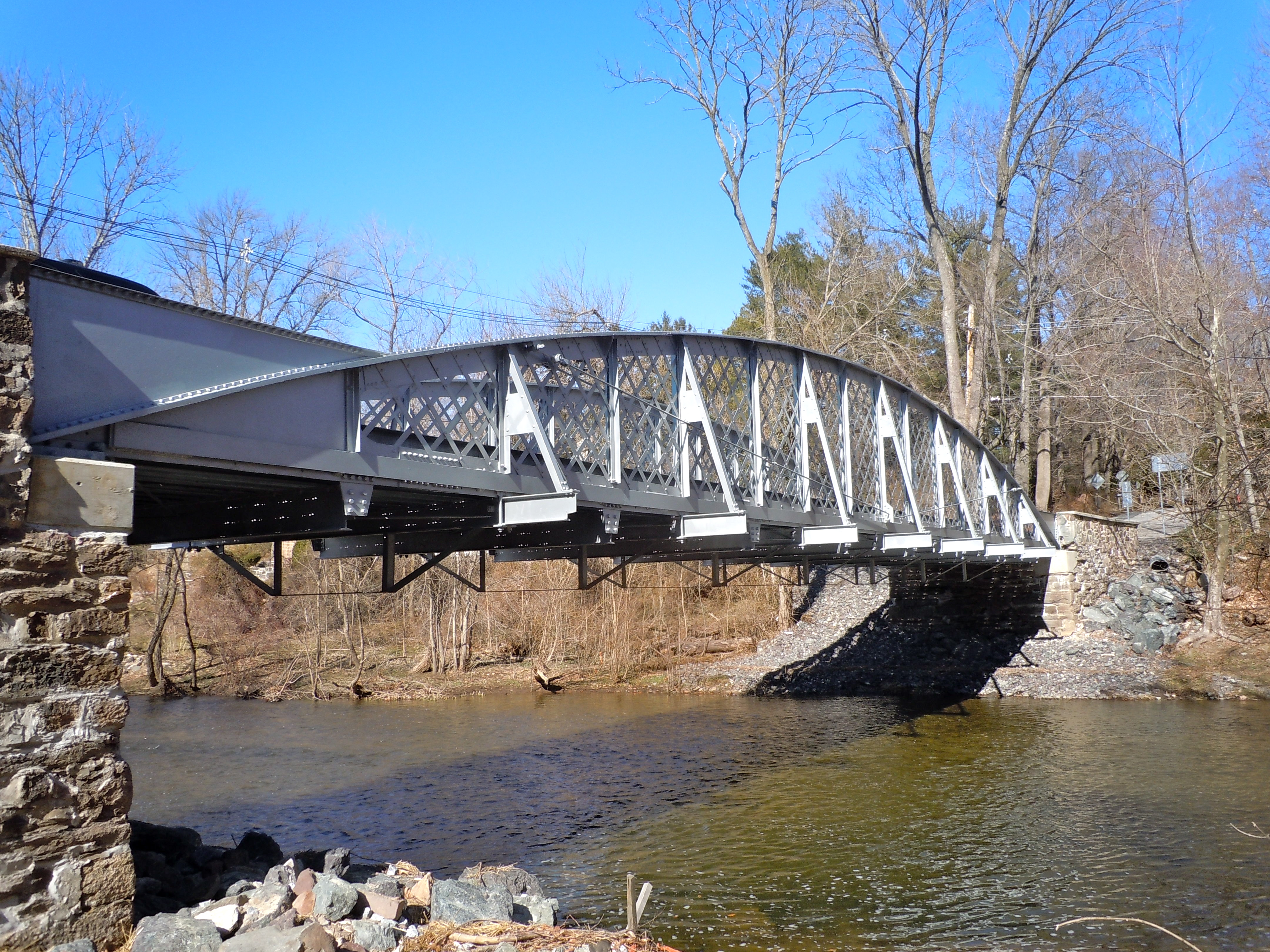 Hare's Hill Road Bridge struts its stuff across French Creek. On the NRHP since March 28, 1978. West of Phoenixville on Hare's Hill Road, East Pikeland Township, Chester County, Pennsylvania